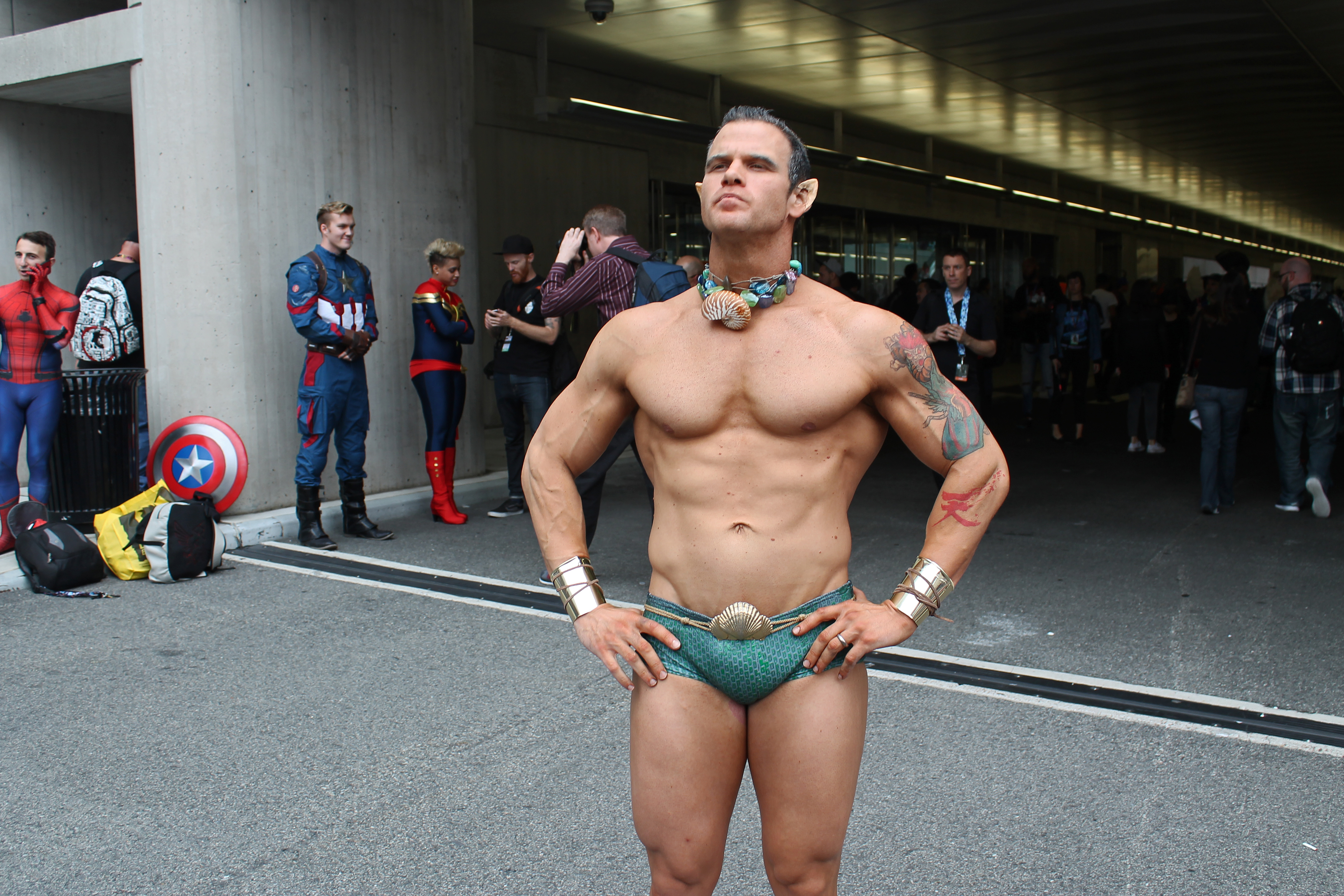 Cosplay at New York Comic Con 2016 (NYCC 2016).